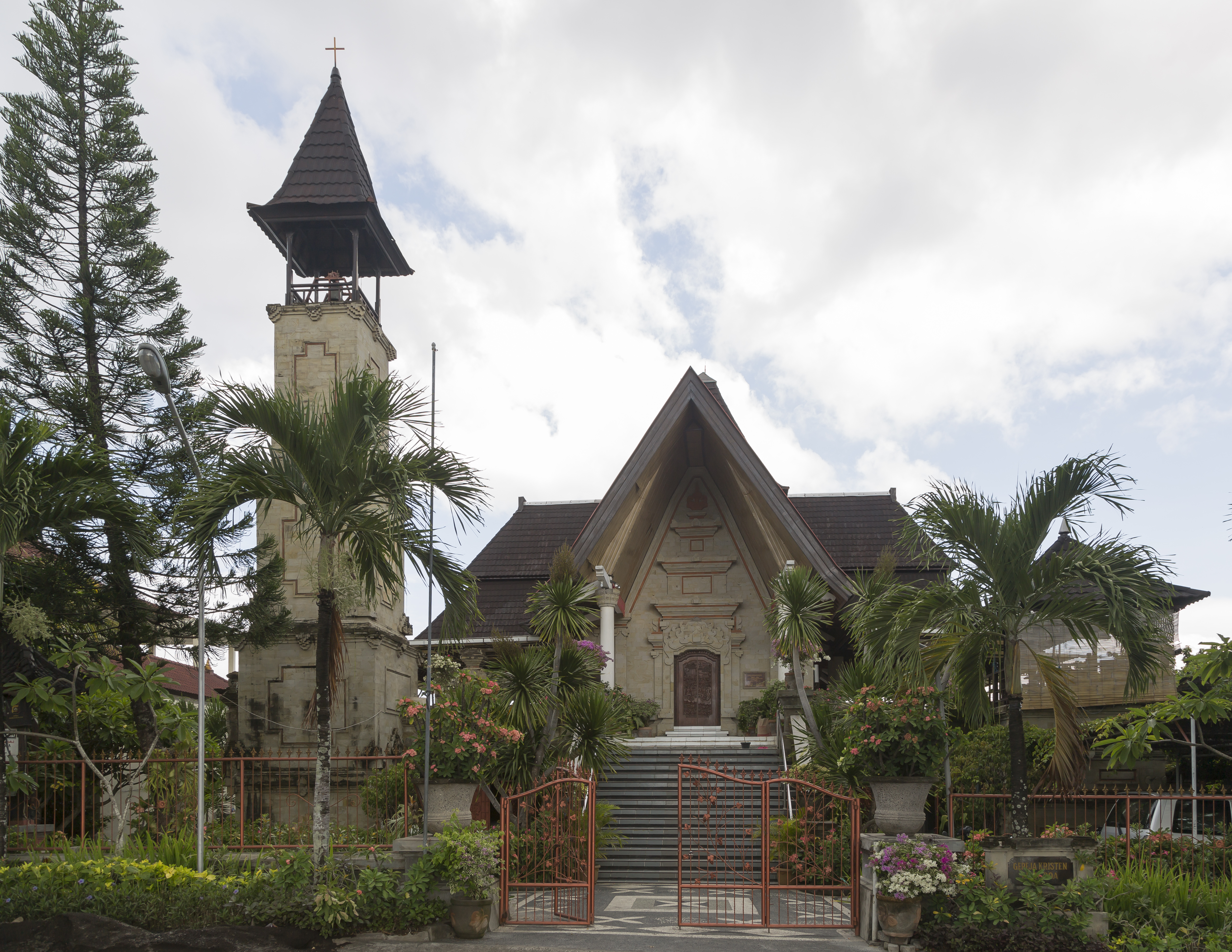 Kuta, Bali, Indonesia: Interiror view of the Protestant Church "GKPB Jemaaat Bukit Dua" in the Puja Mandala Complex